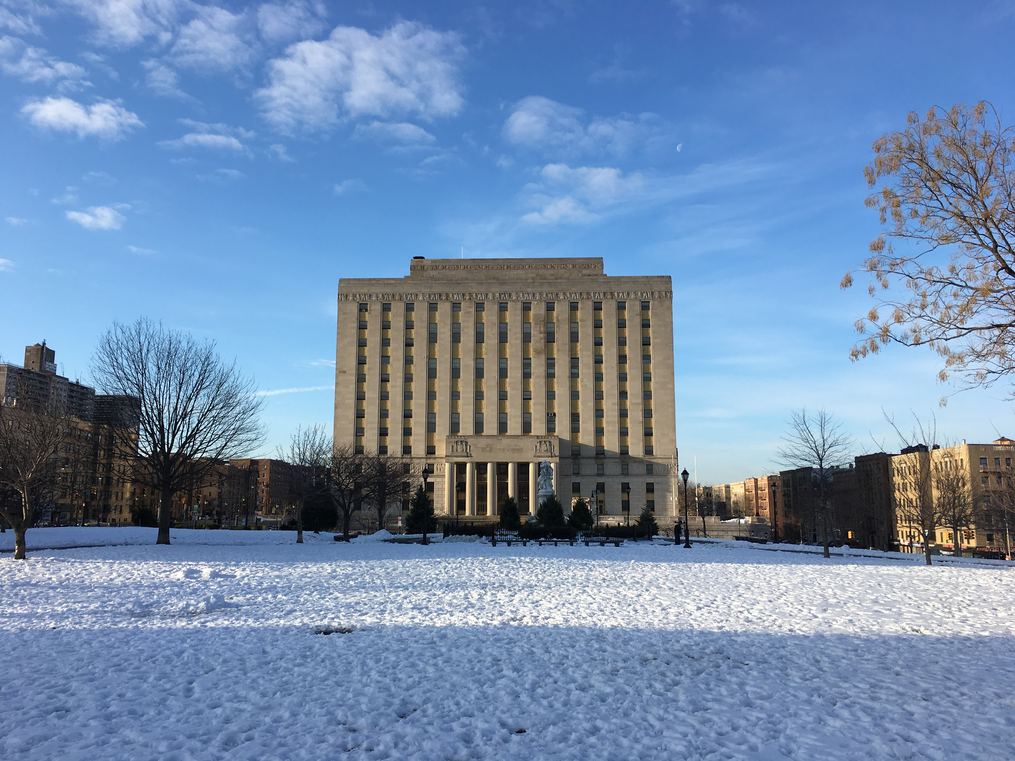 Bronx Courthouse from Joyce Kilmer Park